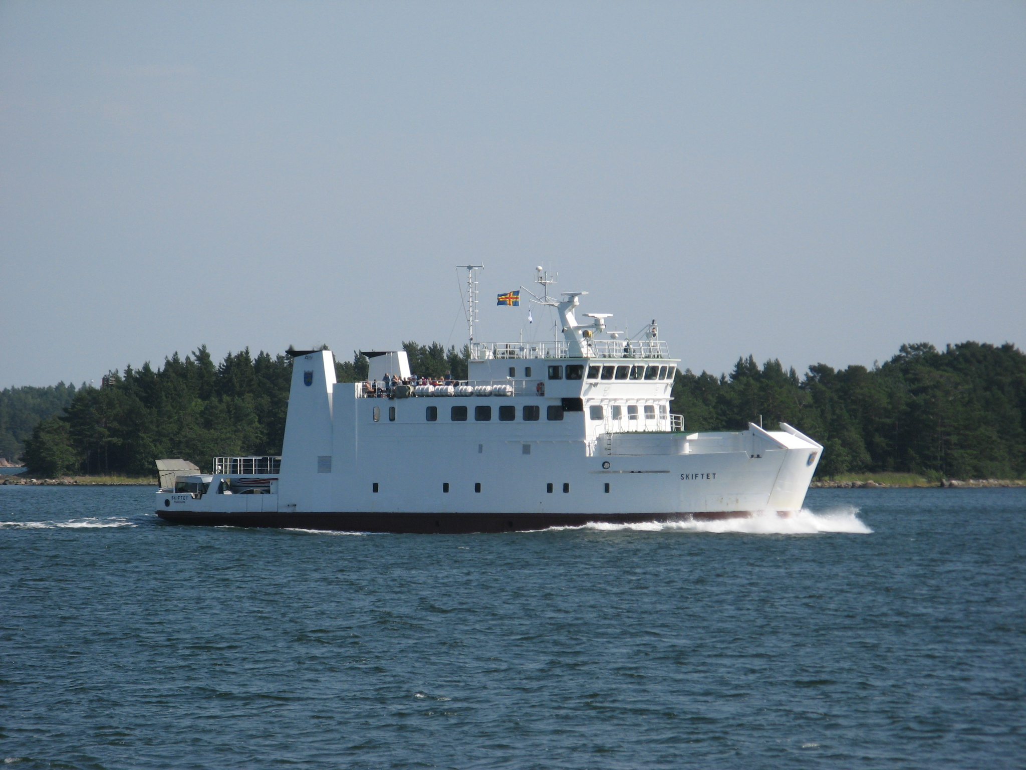 The ferry M/S Skiftet of Ålandstrafiken outside Houtskär on its way to Galtby, Korpo.